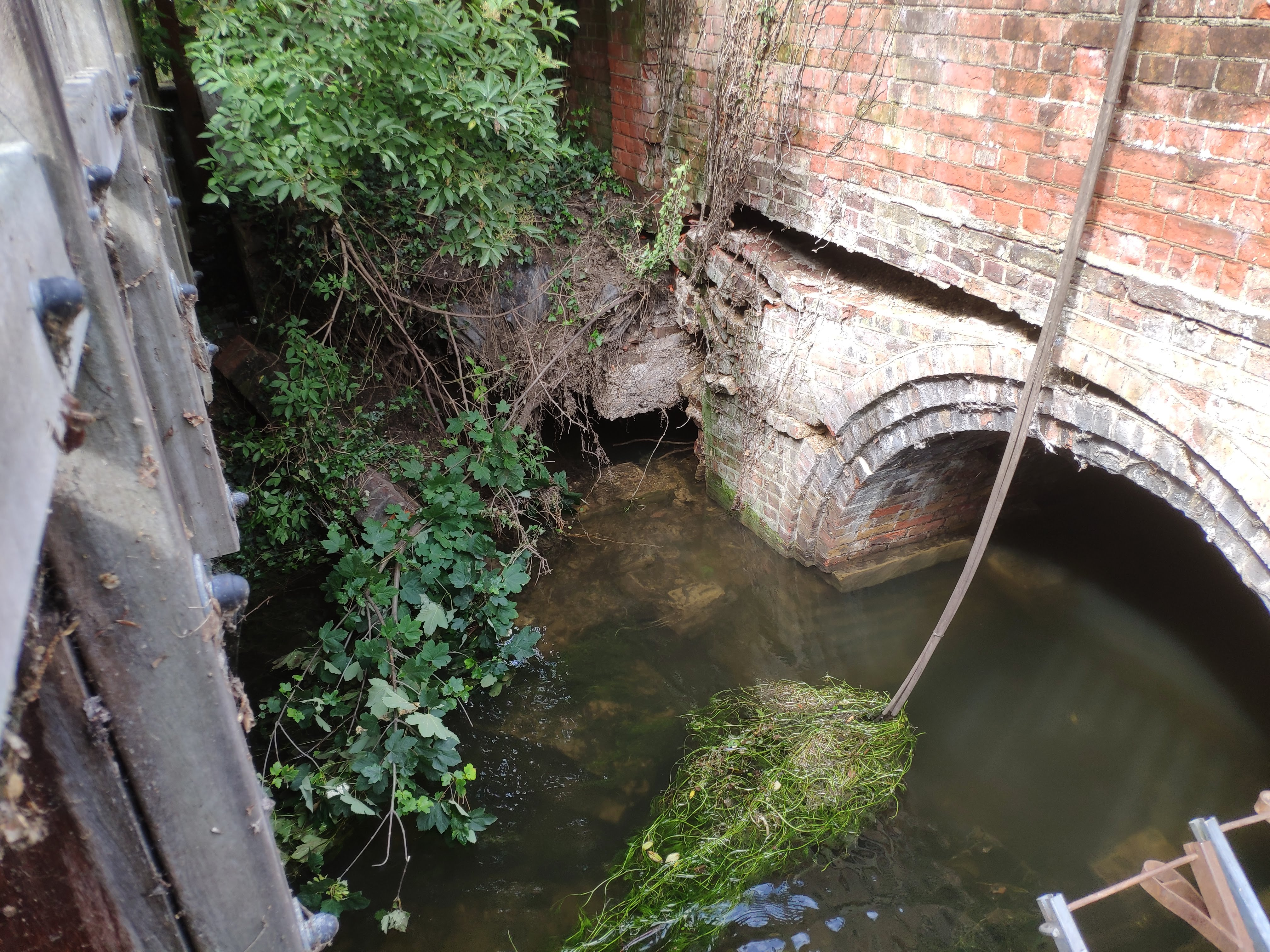 North Channel (downriver) damage to Mitcham Bridge